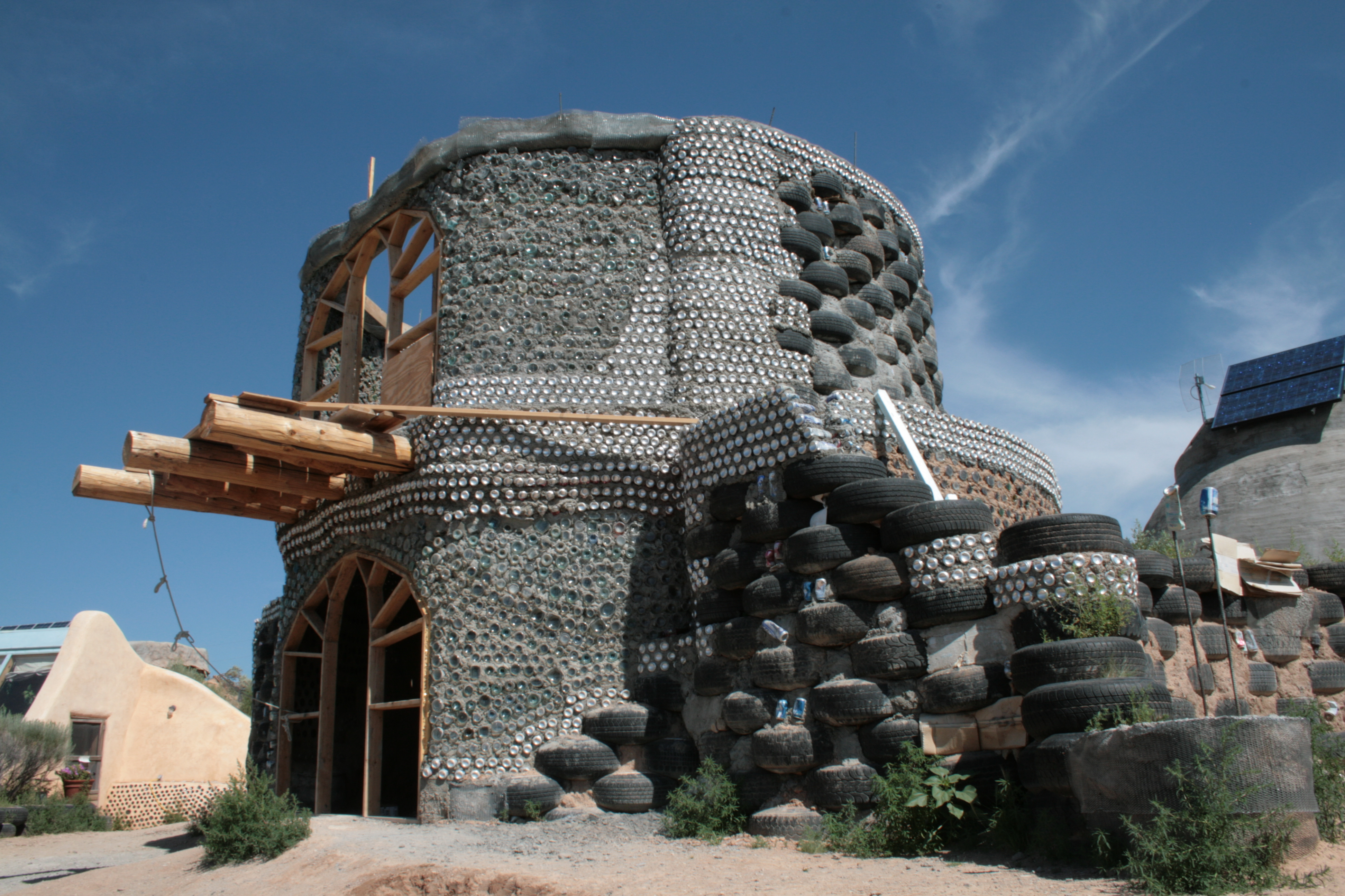 Unfinished earthship